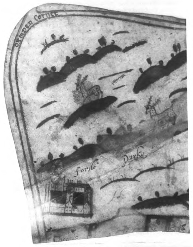 Remnant of a manuscript map showing Ford Palace and Ford Park near Hoath, Kent, England. "1624" appears, but is barely visible, to the right of the palace. The author is unknown, but may have been Thomas Boycot of Fordwich (Gough, 2001: 257). The road junction marked as "Oxinden Corner" is marked on Ordnance Survey maps as "Oxenden Corner".